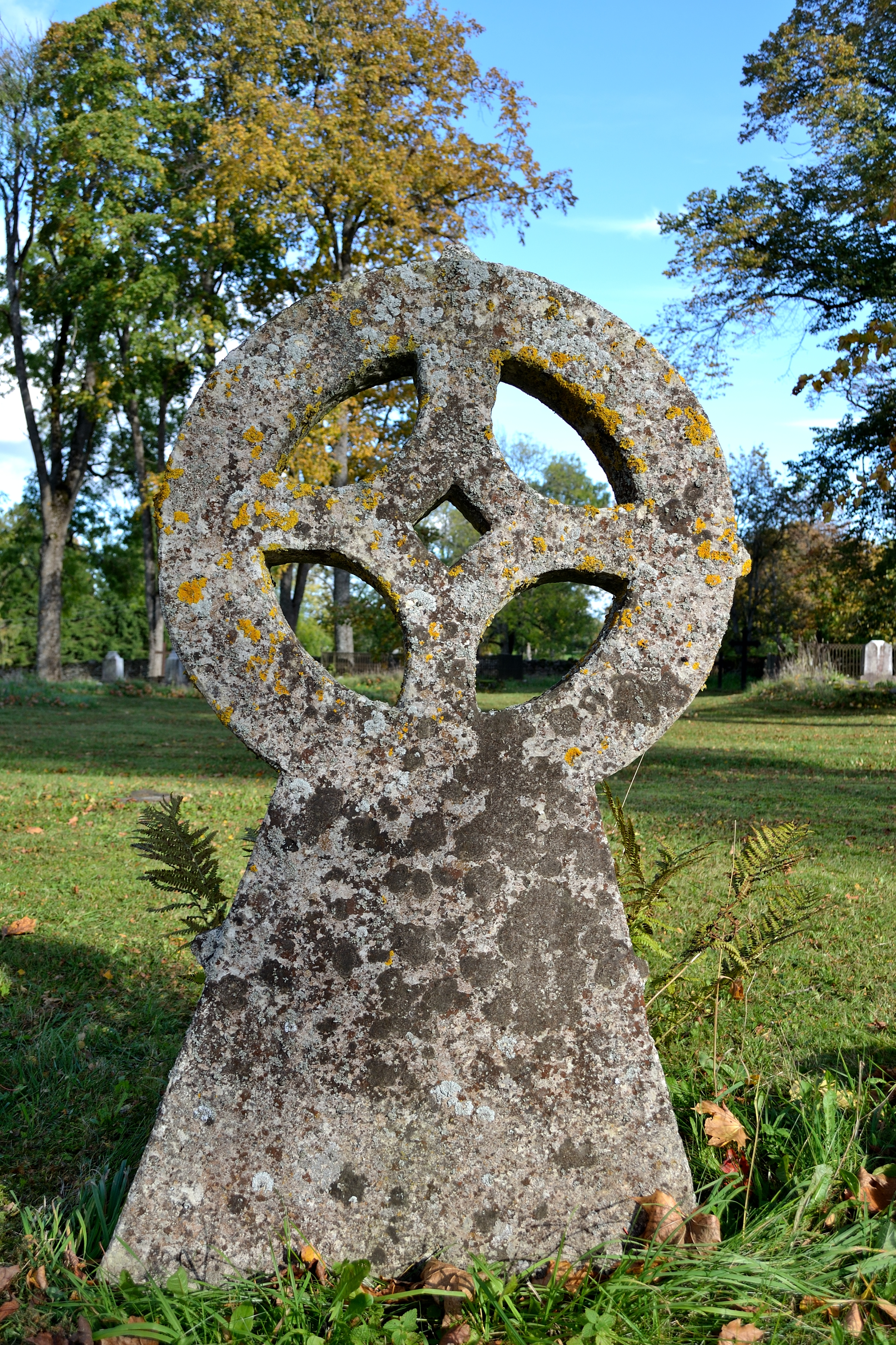 Sun cross in Juuru churchyard, 17. century This photograph was taken with a Nikon D3100